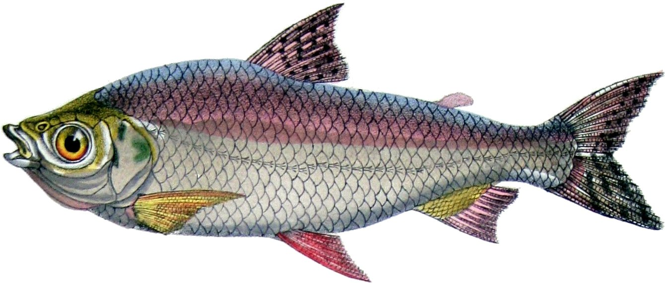 Prochilodus nigricans Agas. = Prochilodus nigricans Spix & Agassiz, 1829